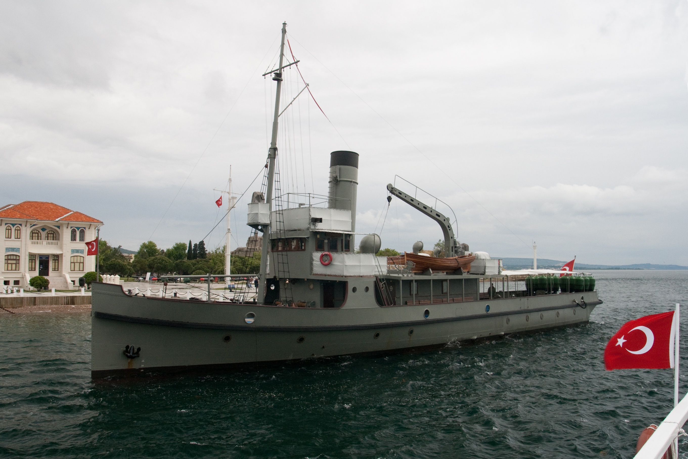 Replica of the Turkish minelayer "Nusret" on display in Canakkale